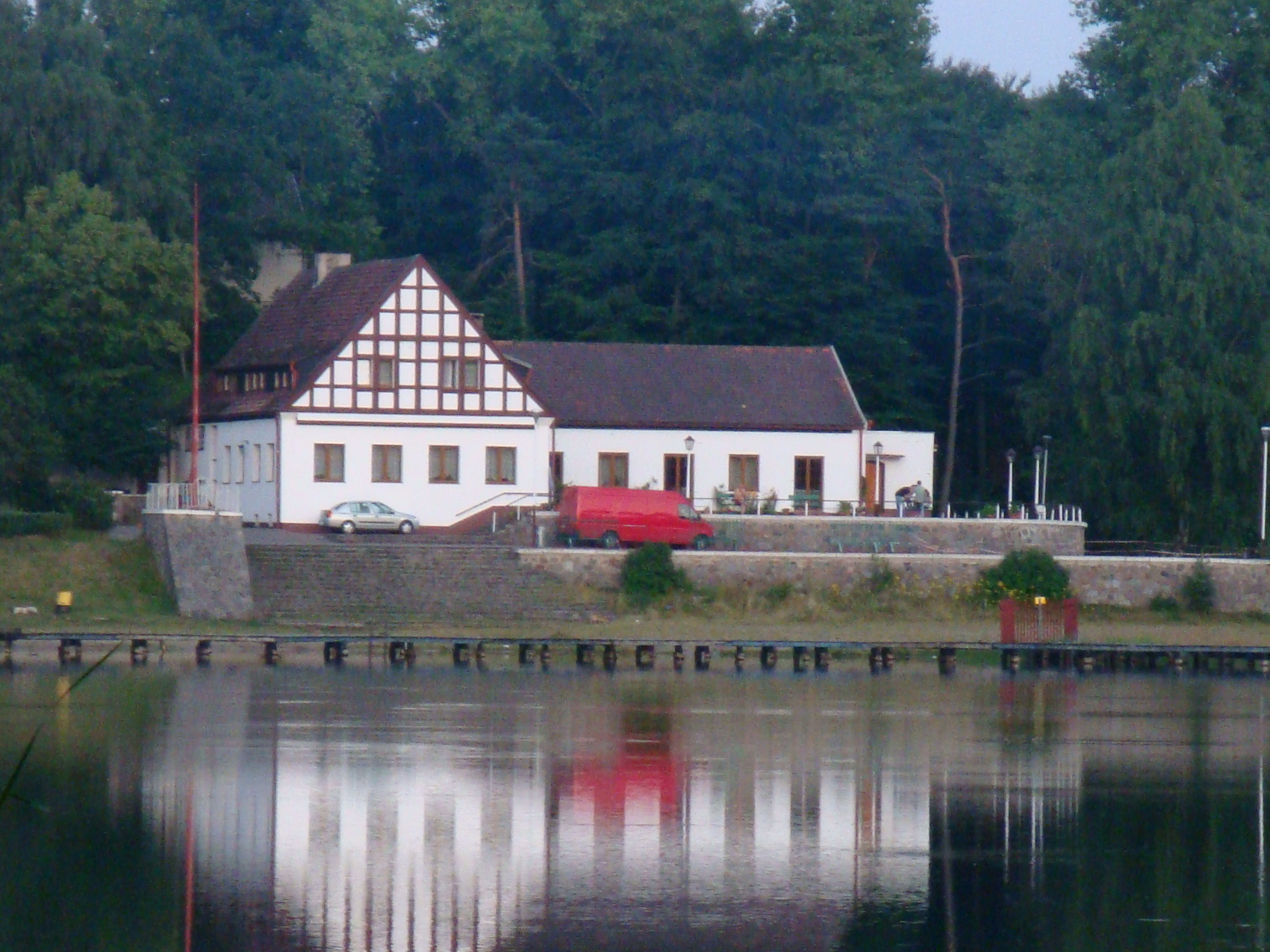 Bukowiec Lake in Swidwin